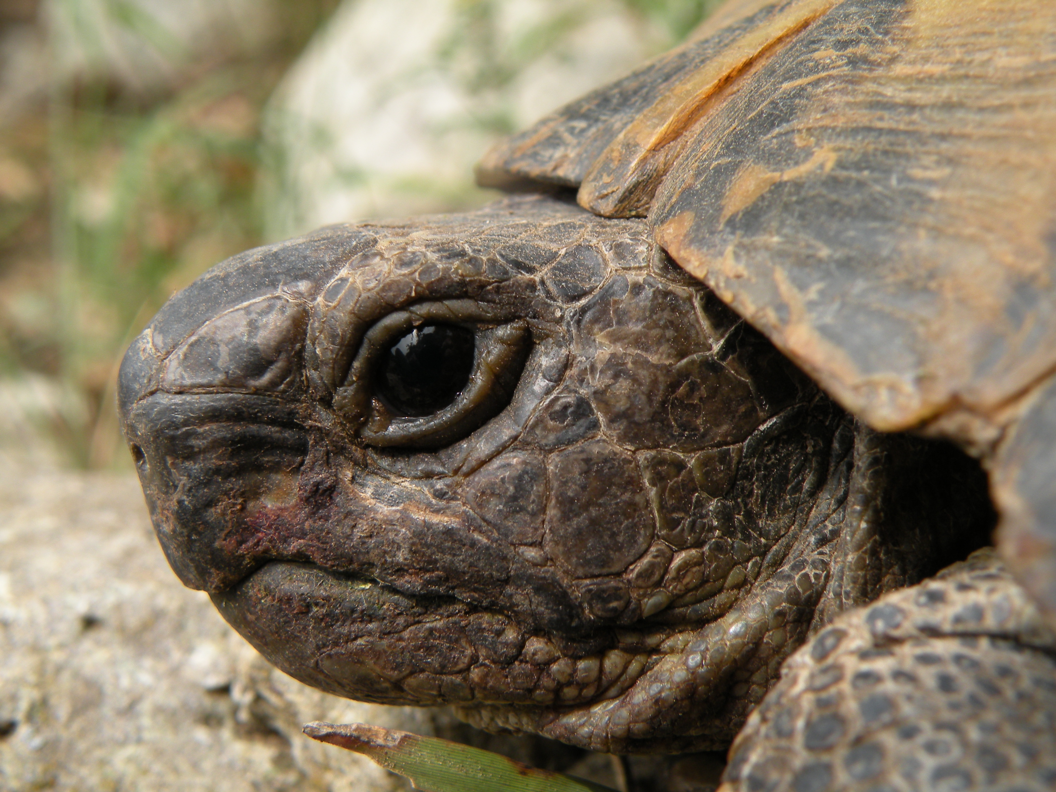 A wild tortoise.(Testudo graeca)